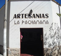 front of our house